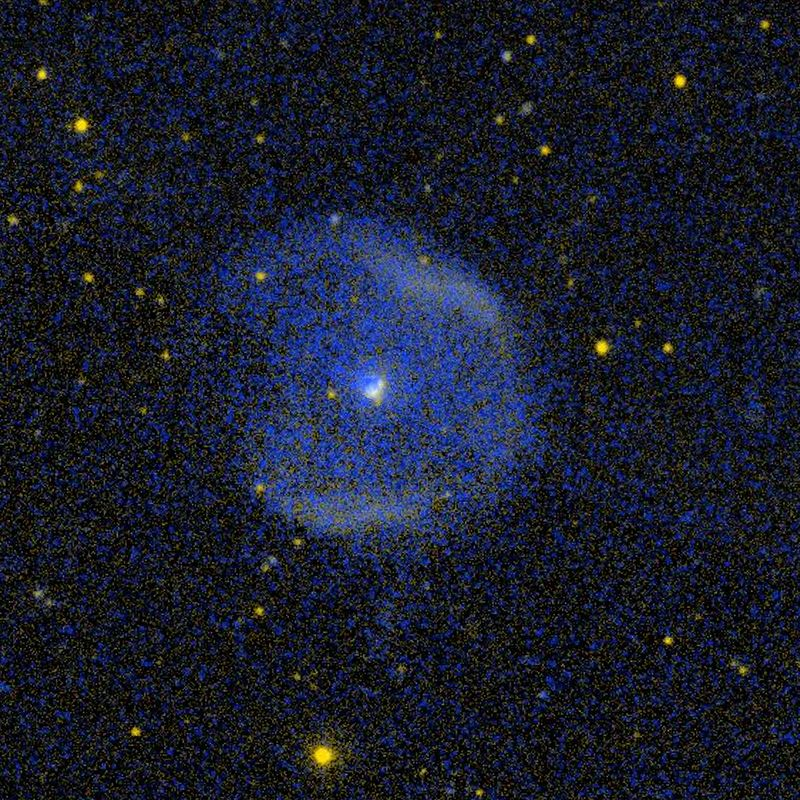 Planetary nebula Jones 1,Ultraviolet